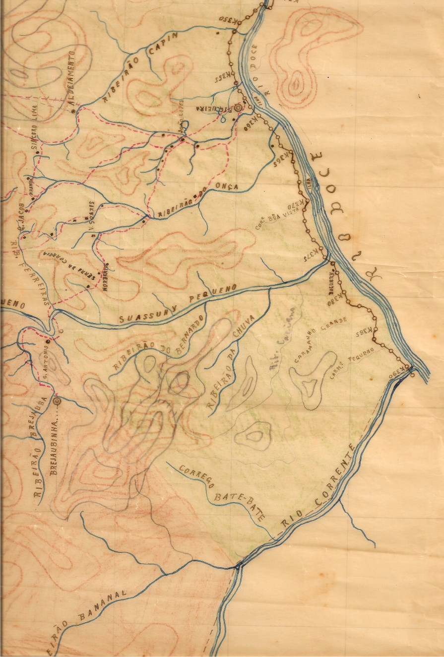 Mapa de Delimitação de Municipio Figueira do Rio Doce atual Governador Valadares mg